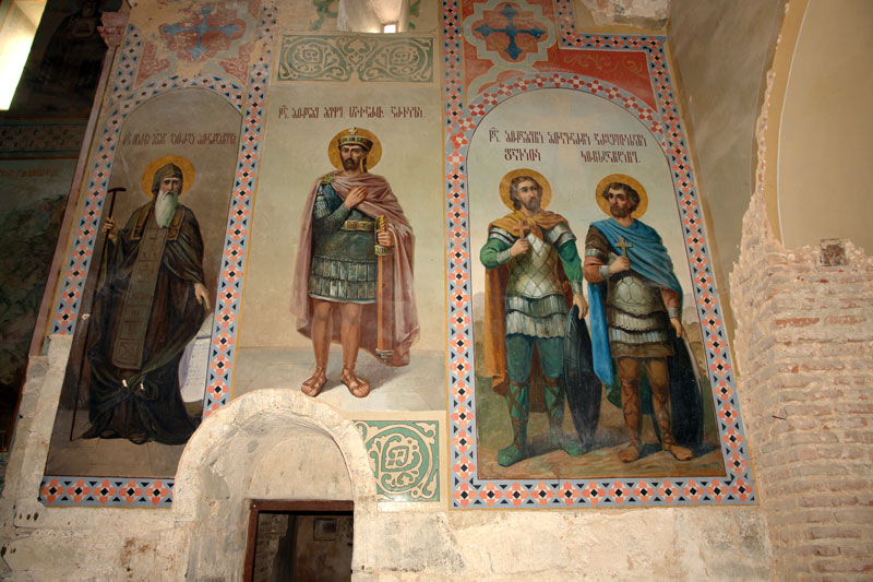 Shio-Mgvime Monastery. The 19th-century murals